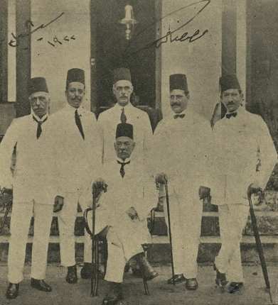 Picture taken in the Seychelles Islands in 1922 where British authorities exiled the leaders of Egyptian independence . The picture is signed by Nahhas Pasha along with an autograph to Eltaher. The leader of the Egyptian Wafd Party is sitting in the middle, and behind him from right to left: Sinot Hanna Bey - Mostafa Nahhas Pasha - Atef Barakat Pasha - Makram Ebeid Pasha - Fathallah Barakat Pasha.